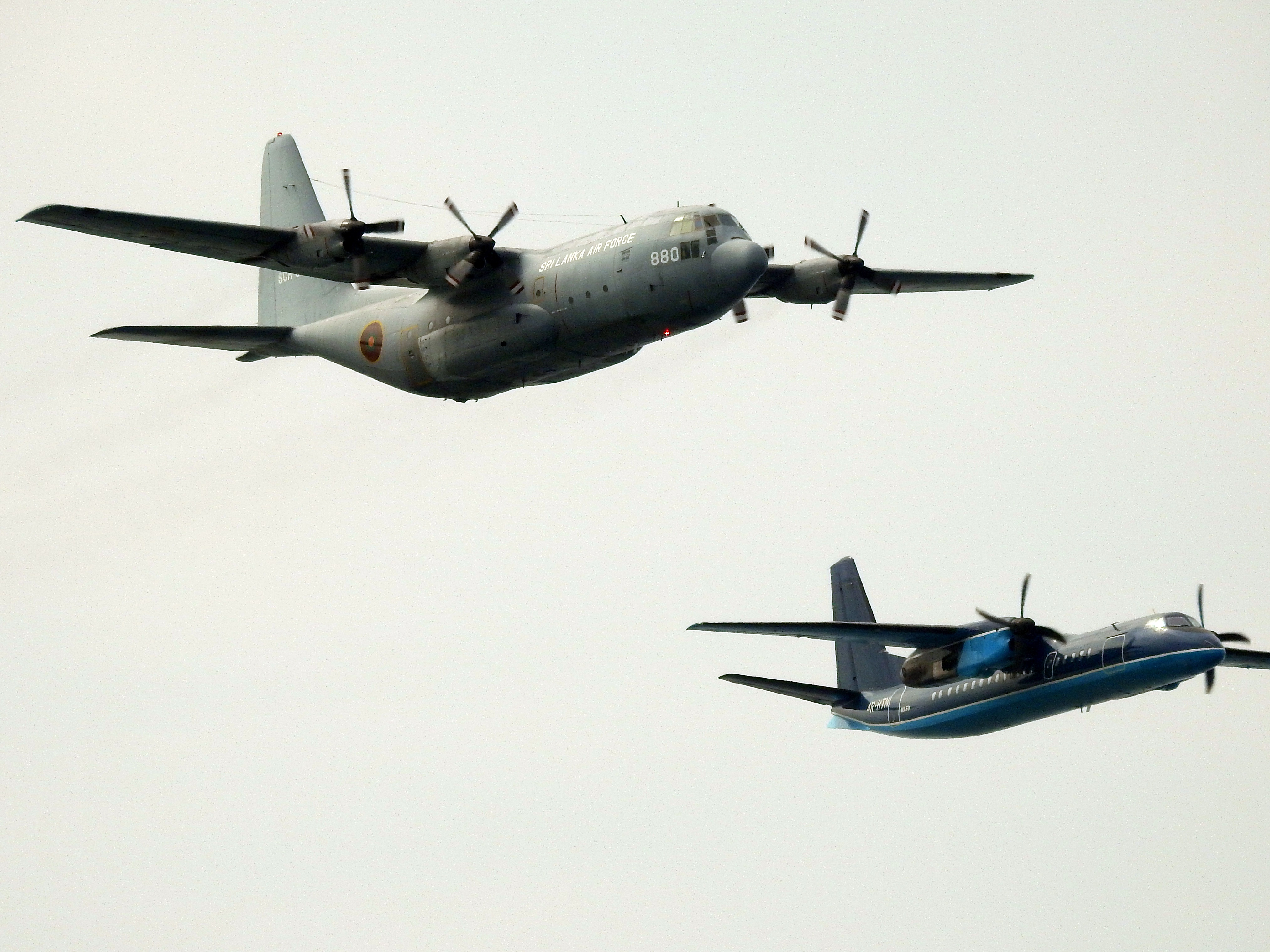 A 2-hour photowalk was conducted during the Independence Day of Sri Lanka (4 February 2019), covering the environment and events near the annual parade held at Galle Face Green. The project mostly covered the Navy and Coast Guard vessels, Air Force aircrafts, and civilian life during that morning.